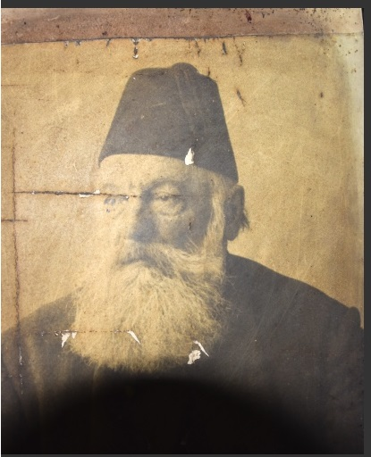 Kurdistani Jew, late 20th century